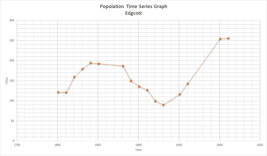 Total population of Edgcott Civil Parish, Buckinghamshire, as reported by the Census of Population from 1801 to 2011